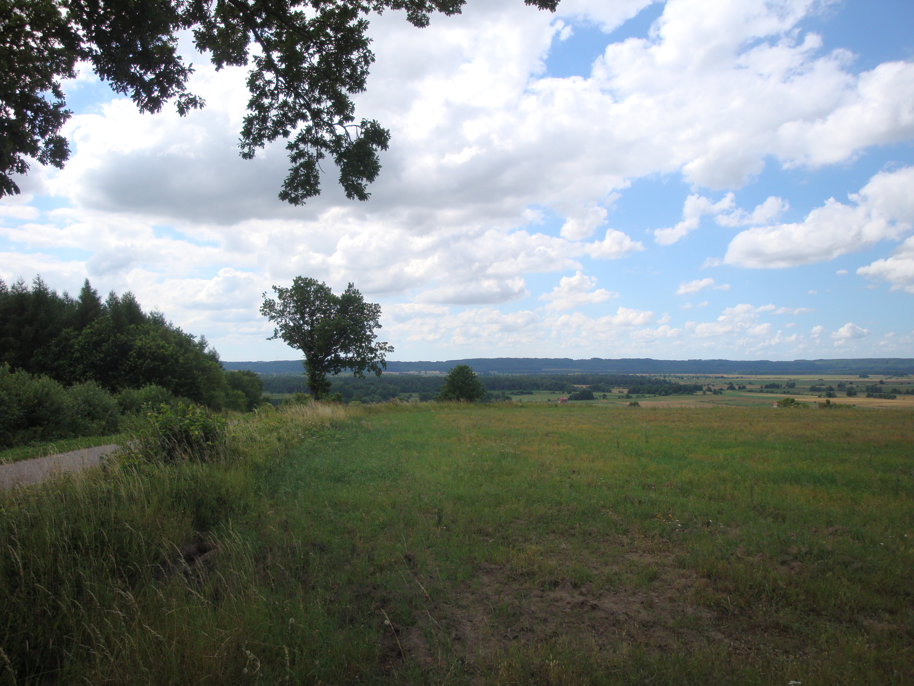 Chocielewko-village in Pomeranian Voivodeship, Poland. View froom village border